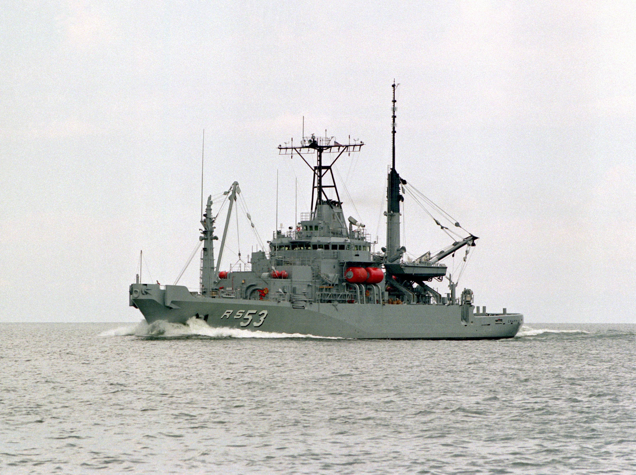 The U.S. Navy the salvage ship USS Grapple (ARS-53) during acceptance trials in Sturgeon Bay, Wisconsin (USA), August 1986.